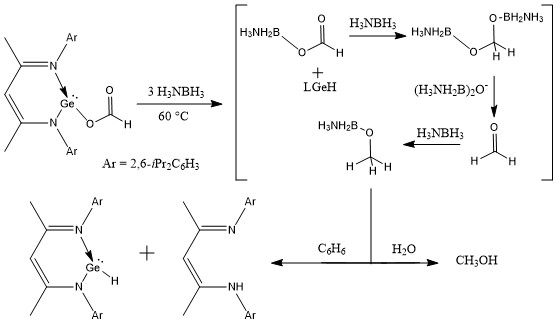 Proposed mechanism for CO2 reduction by germylene hydride